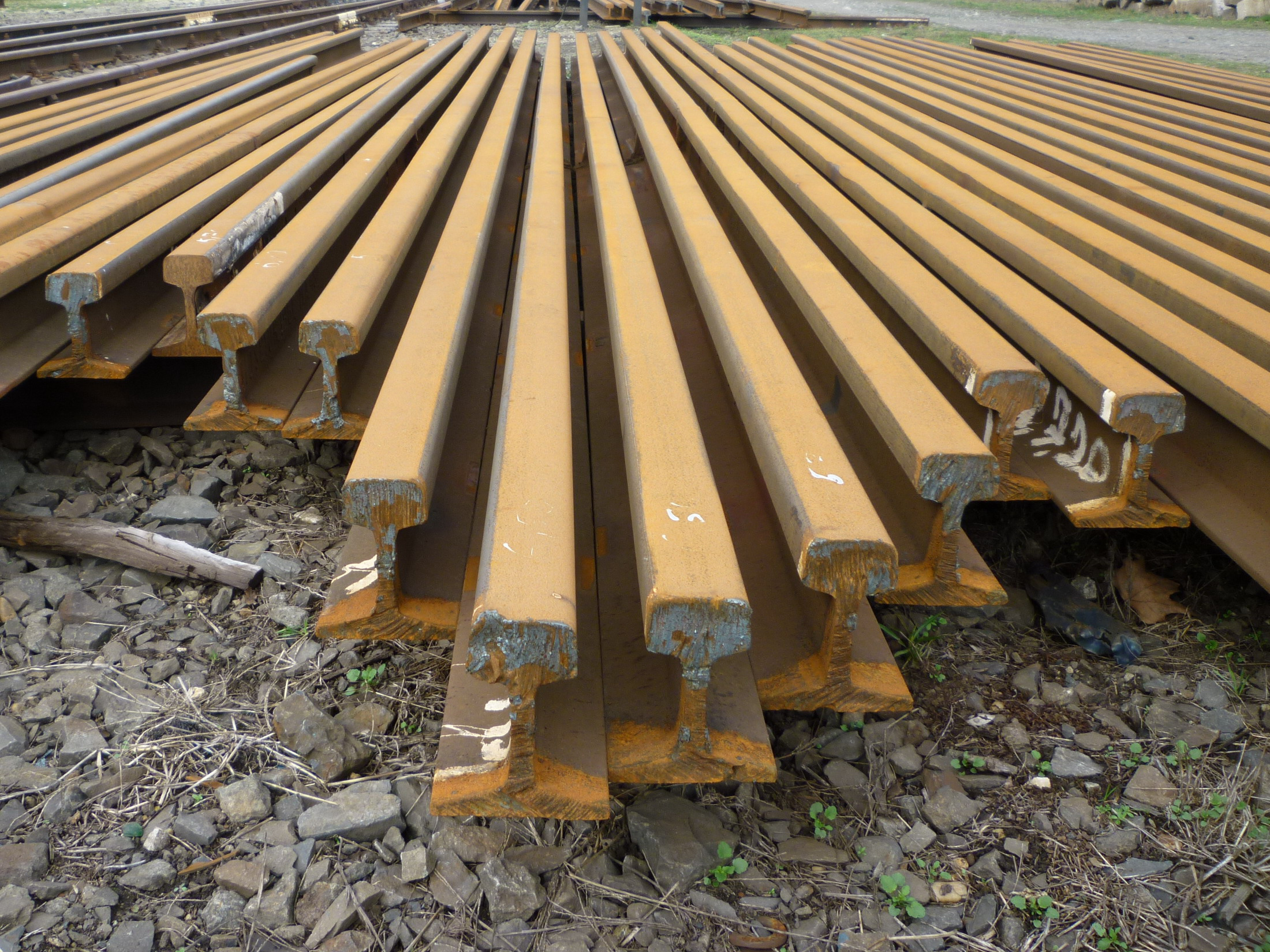 Rails